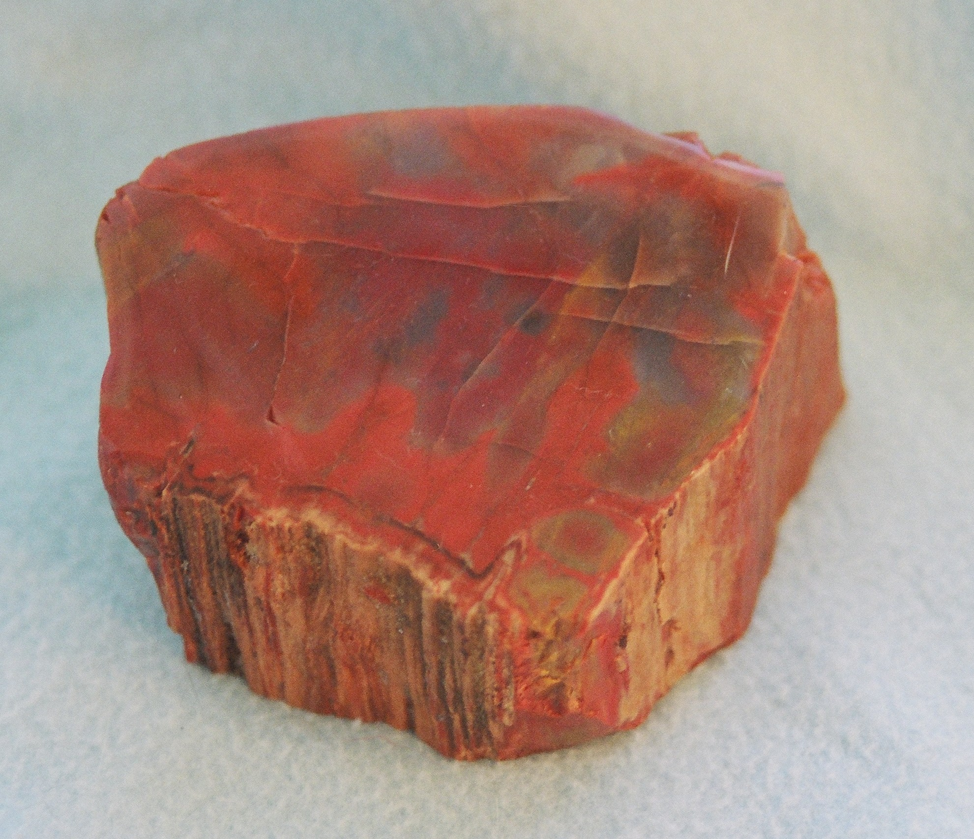 Petrified wood from Arizona